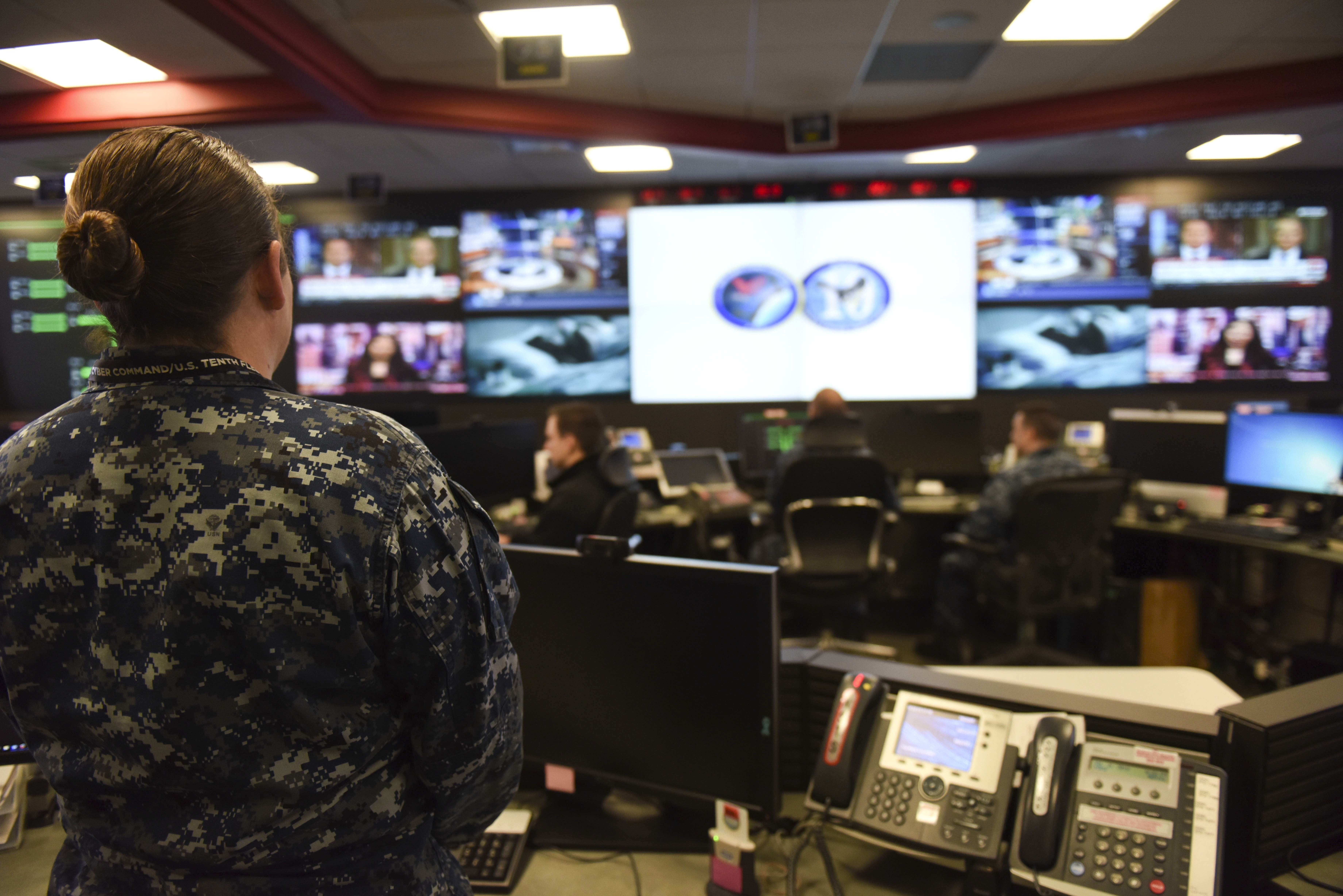 FORT GEORGE G. MEADE, Md. (Dec. 14, 2017) Sailors stand watch in the Fleet Operations Center at the headquarters of U.S. Fleet Cyber Command/U.S. 10th Fleet. U.S. Fleet Cyber Command serves as the Navy component command to U.S. Strategic Command and U.S. Cyber Command. U.S. 10th Fleet is the operational arm of Fleet Cyber Command and executes its mission through a task force structure. (U.S. Navy Photo by MC1 Samuel Souvannason/Released)